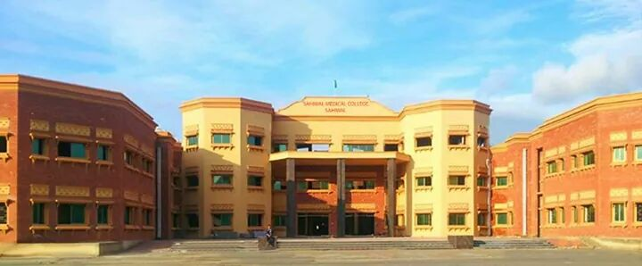 New Campus Sahiwal Medical College, Sahiwal. Image was taken in December 2014.